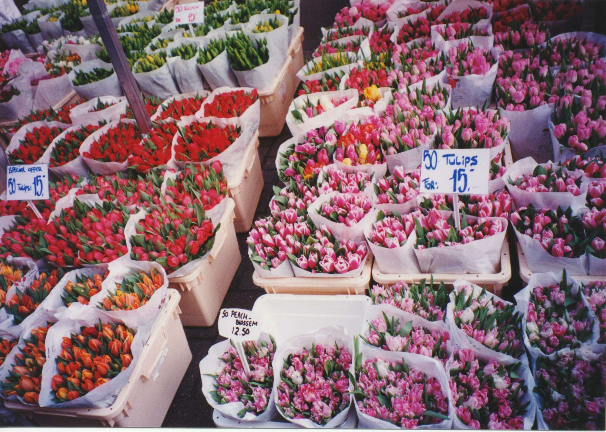 Tulips for sale in the Flowers Marker in Amsterdam (1999)